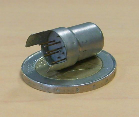 Picture of nuvistor laying on a 2 Euro coin